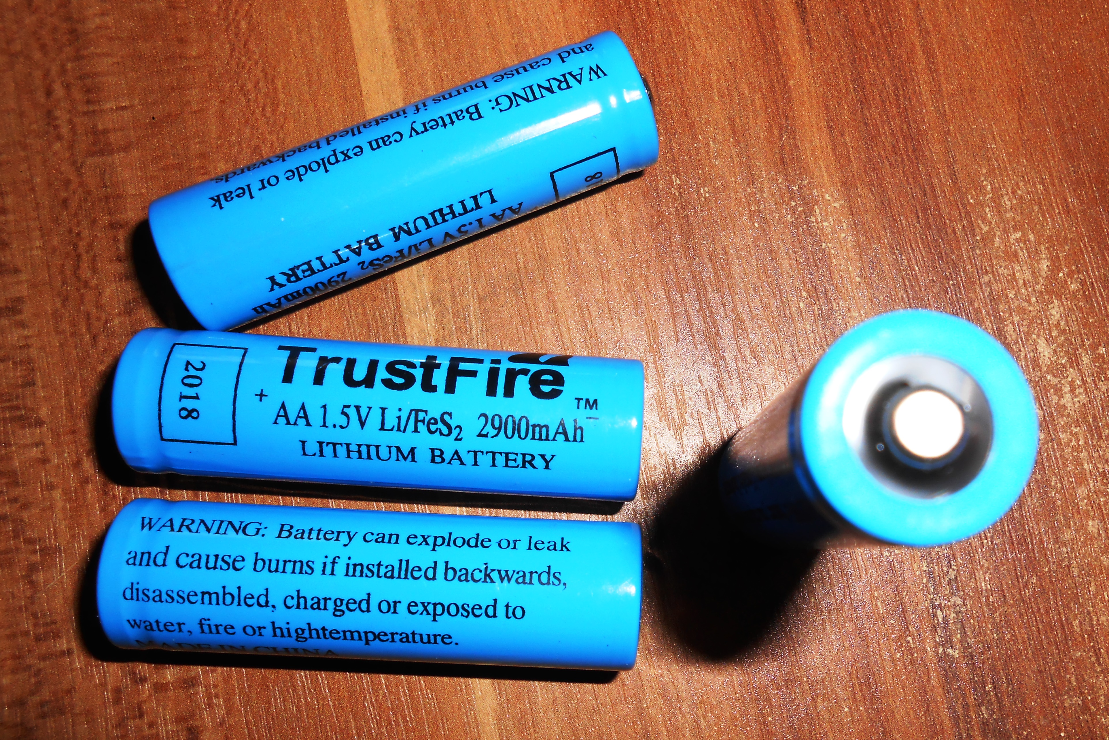 Lithium-iron-disulphide galvanic cell of the form factor AA 1.5 V (not rechargeable)